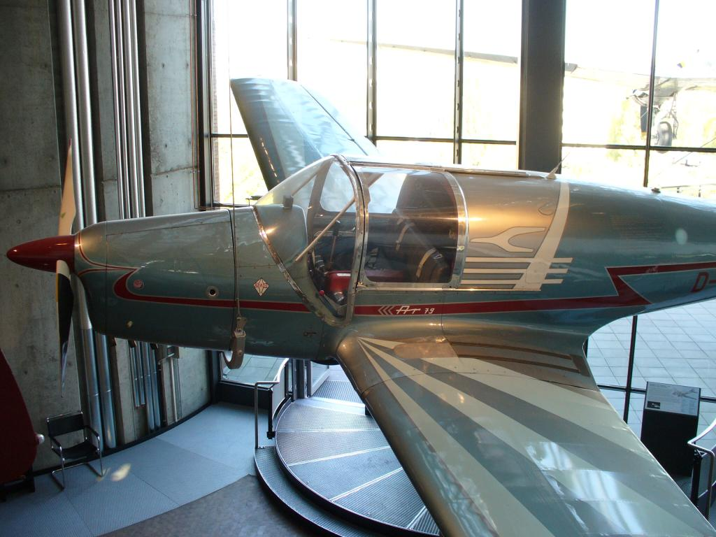 Arado Ar 79, German civilian (aerobatics) airplane, pre-war built